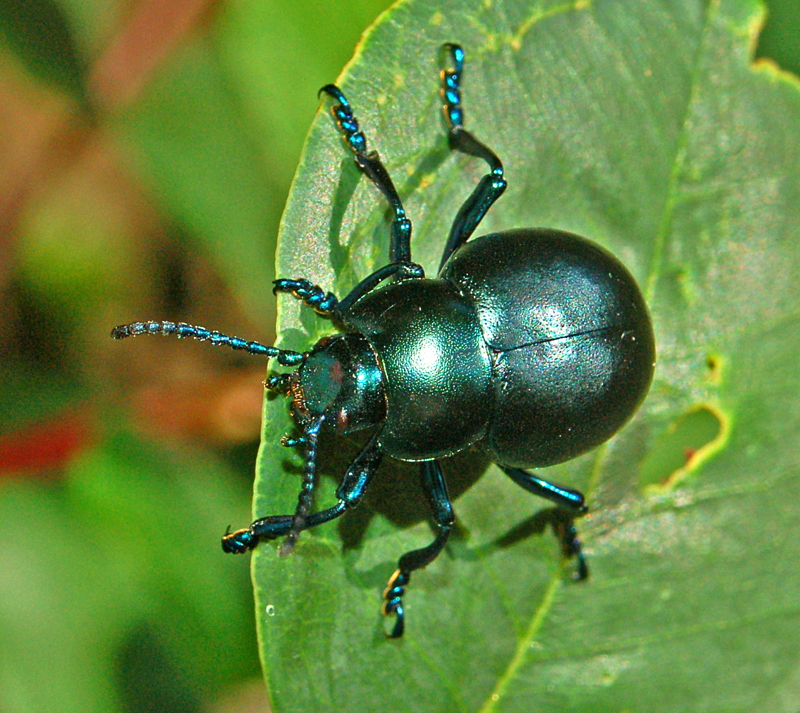 Timarcha tenebricosa. Genova, Italy